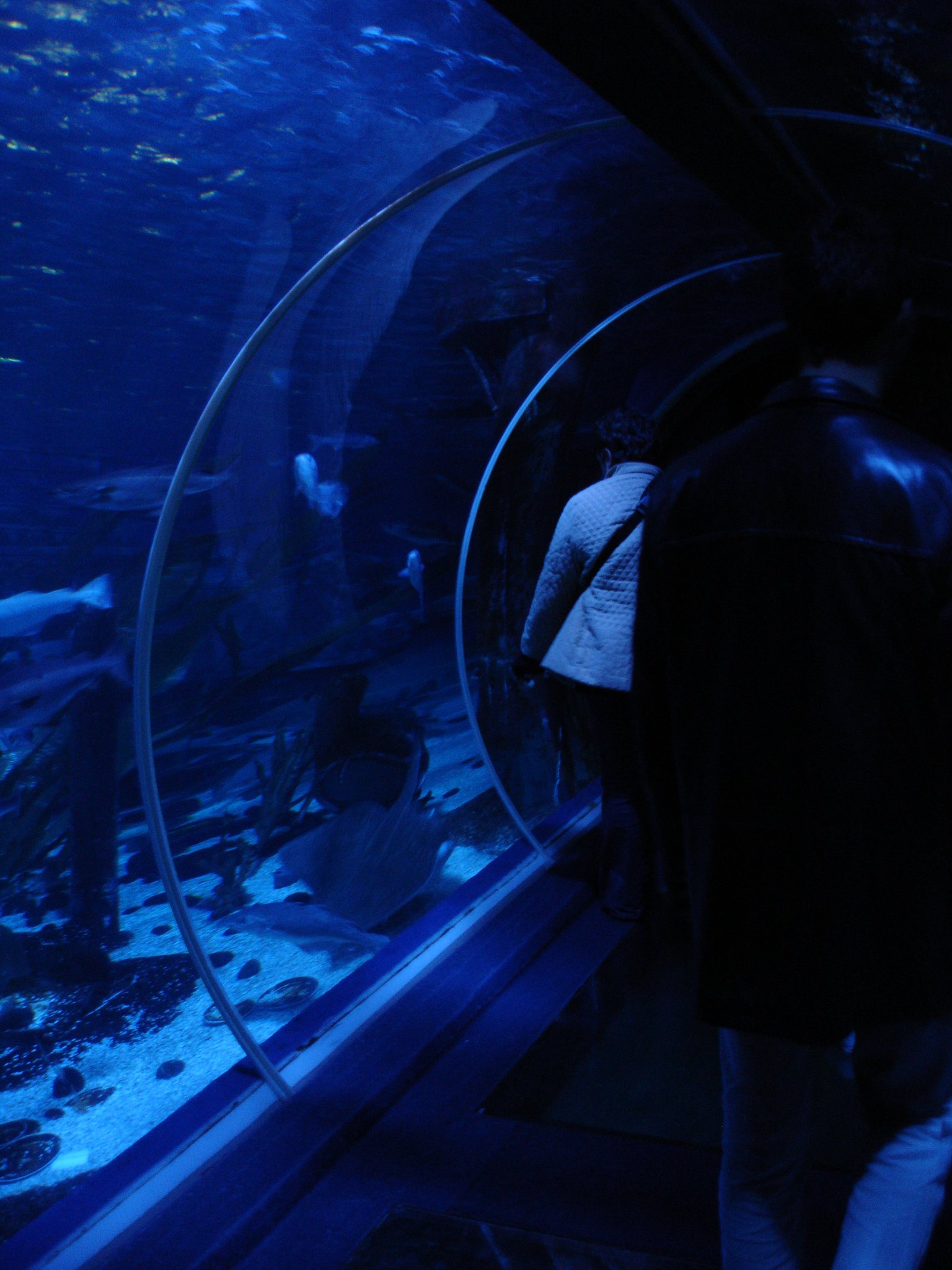 France, Seine-et-Marne, Sea Life Aquarium Paris, Tunnel